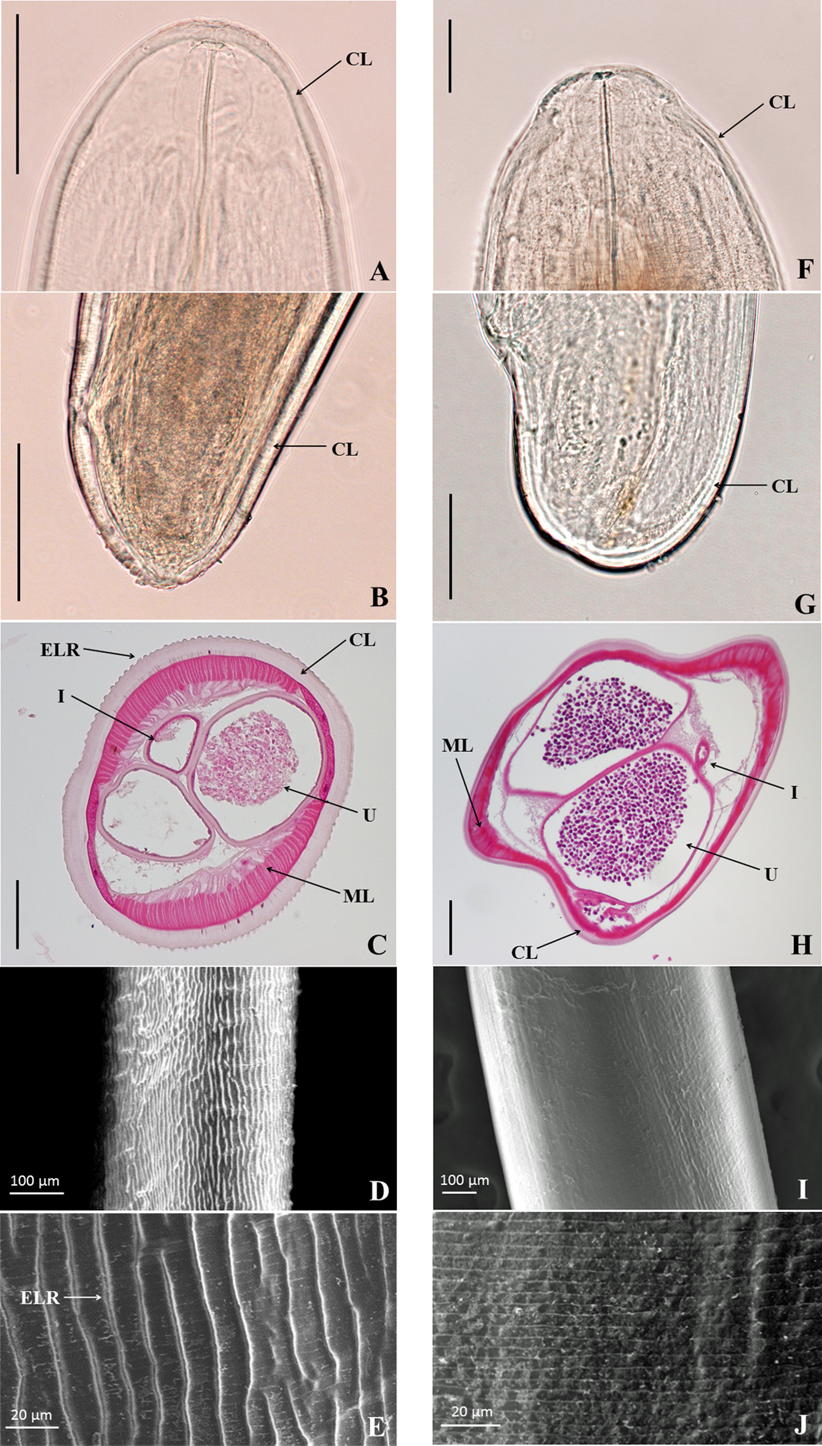 Dirofilaria repens removed from a subcutaneous nodule - Photos Figure 1 of article. Morphological images of female adults of the Dirofilaria species isolated from the present case (left column, A–E) and Dirofilaria immitis (right column, F–J). A, F: direct images of the cephalic parts under an optical microscope. B, G: direct images of the caudal parts under an optical microscope. C, H: cross-sectional tissue sections (hematoxylin and eosin stain). D, I: low-magnification images of the body surfaces under a scanning electron microscope (SEM). E, J: high-magnification images of the body surfaces under SEM. Scales bars: A, B, C, F, G, 100 μm; H, 200 μm. CL, Cuticular Layer; ELR, External Longitudinal Ridge; I, Intestine; ML, Muscular Layer; U, Uterus.